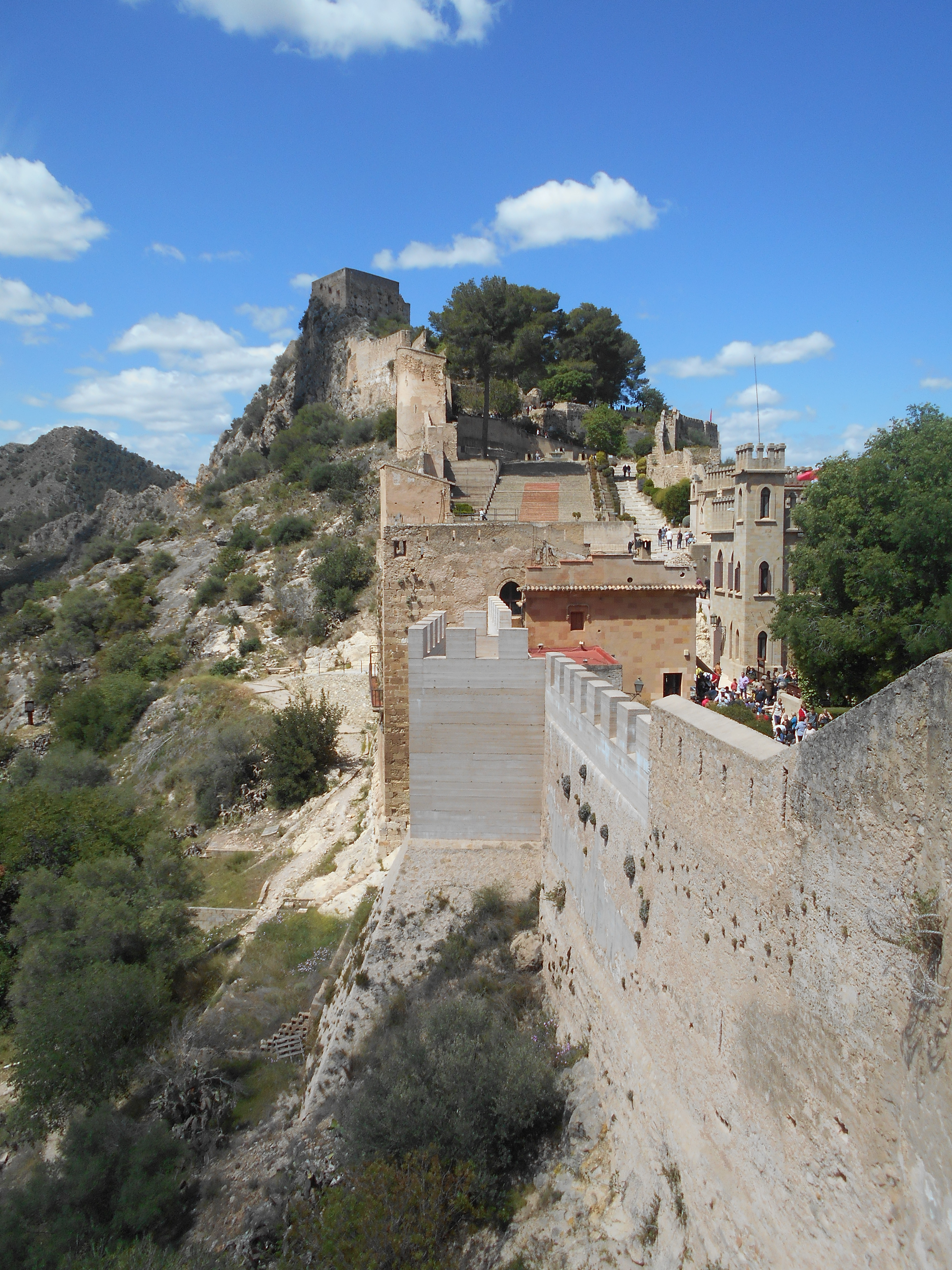 Xativa Castle. Valencian Community, Spain.